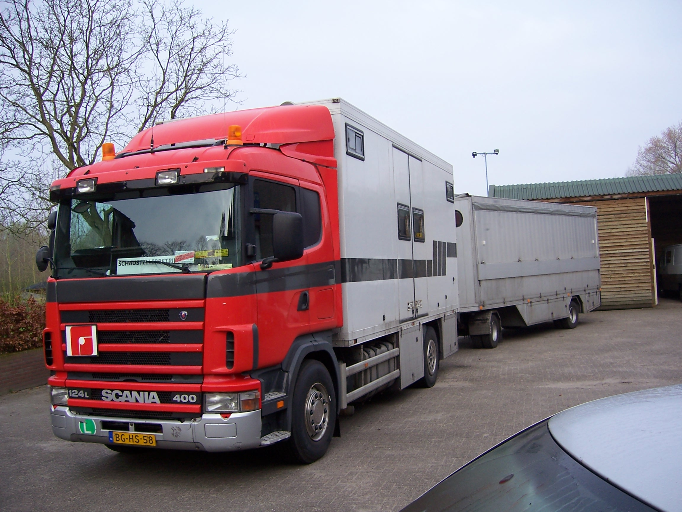 Scania 124L 400 truck.